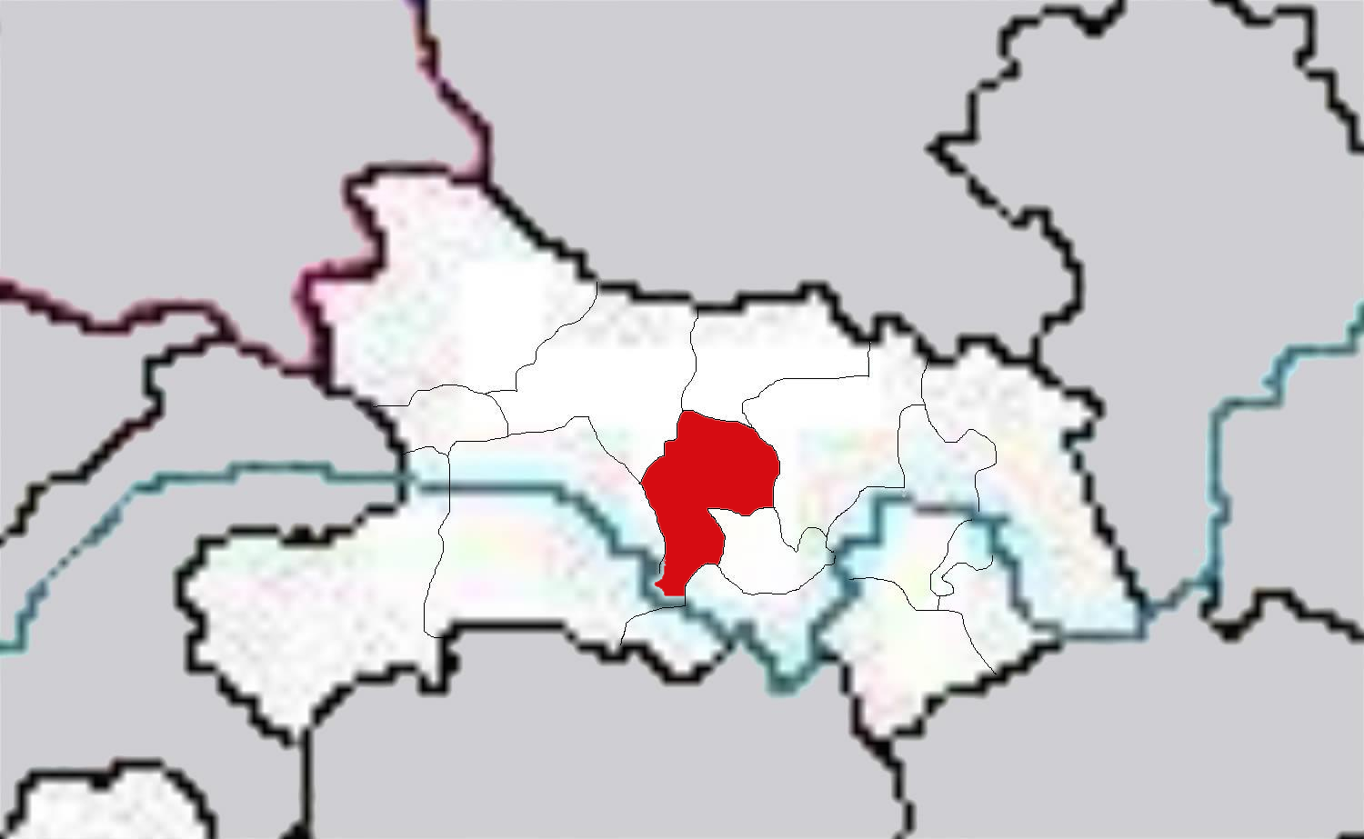 Maps of Hubei Province of China